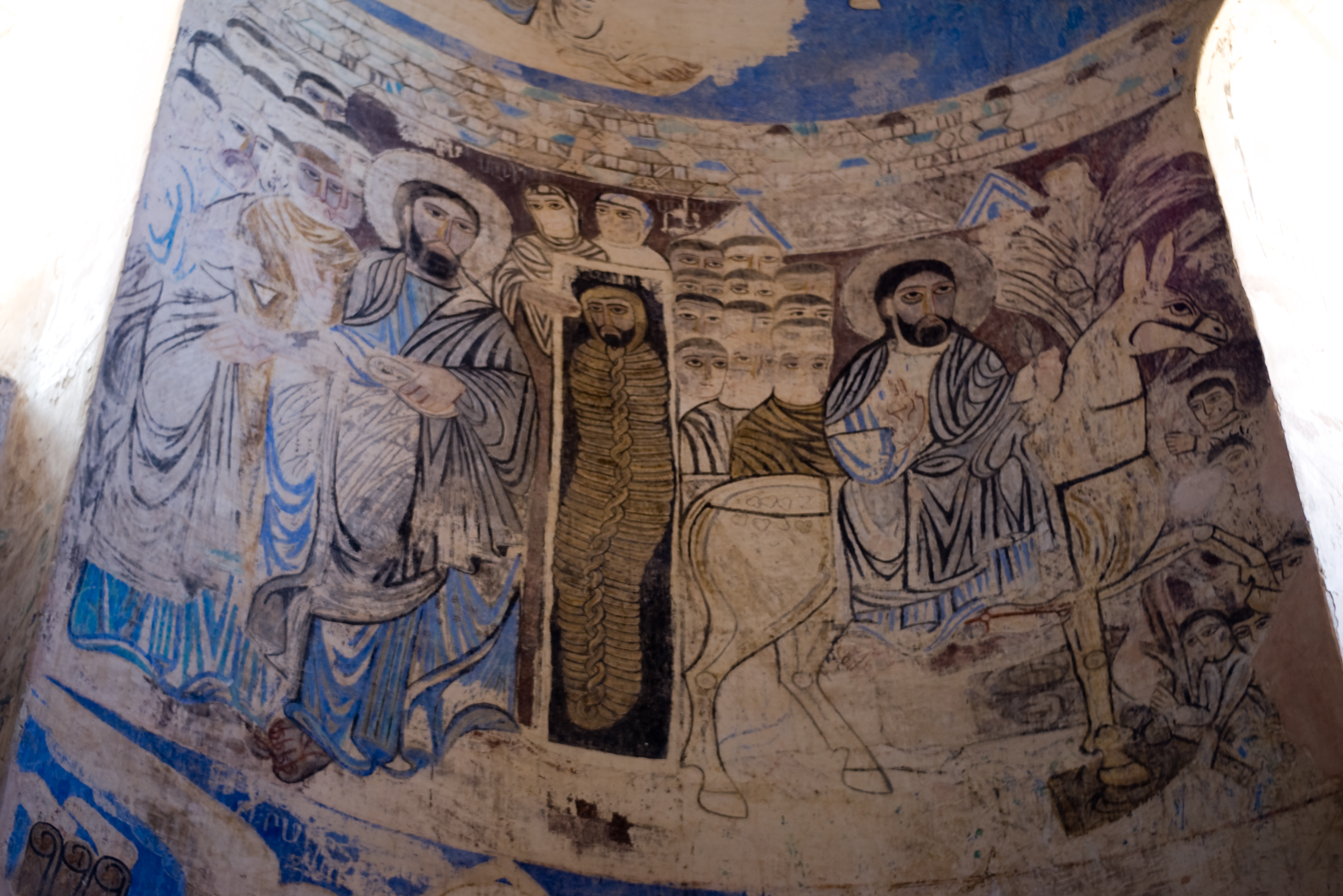 Wall paintings inside the Church of Akhtamar, Van lake, Turkey : the Raising of Lazarus